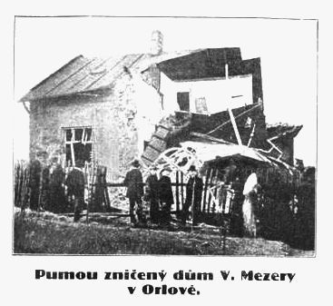 Results of a bomb attack on a house of Mr Mezera in Orlová during the dispute between Czechoslovakia and Poland over Cieszyn Silesia in 1918 - 1920.